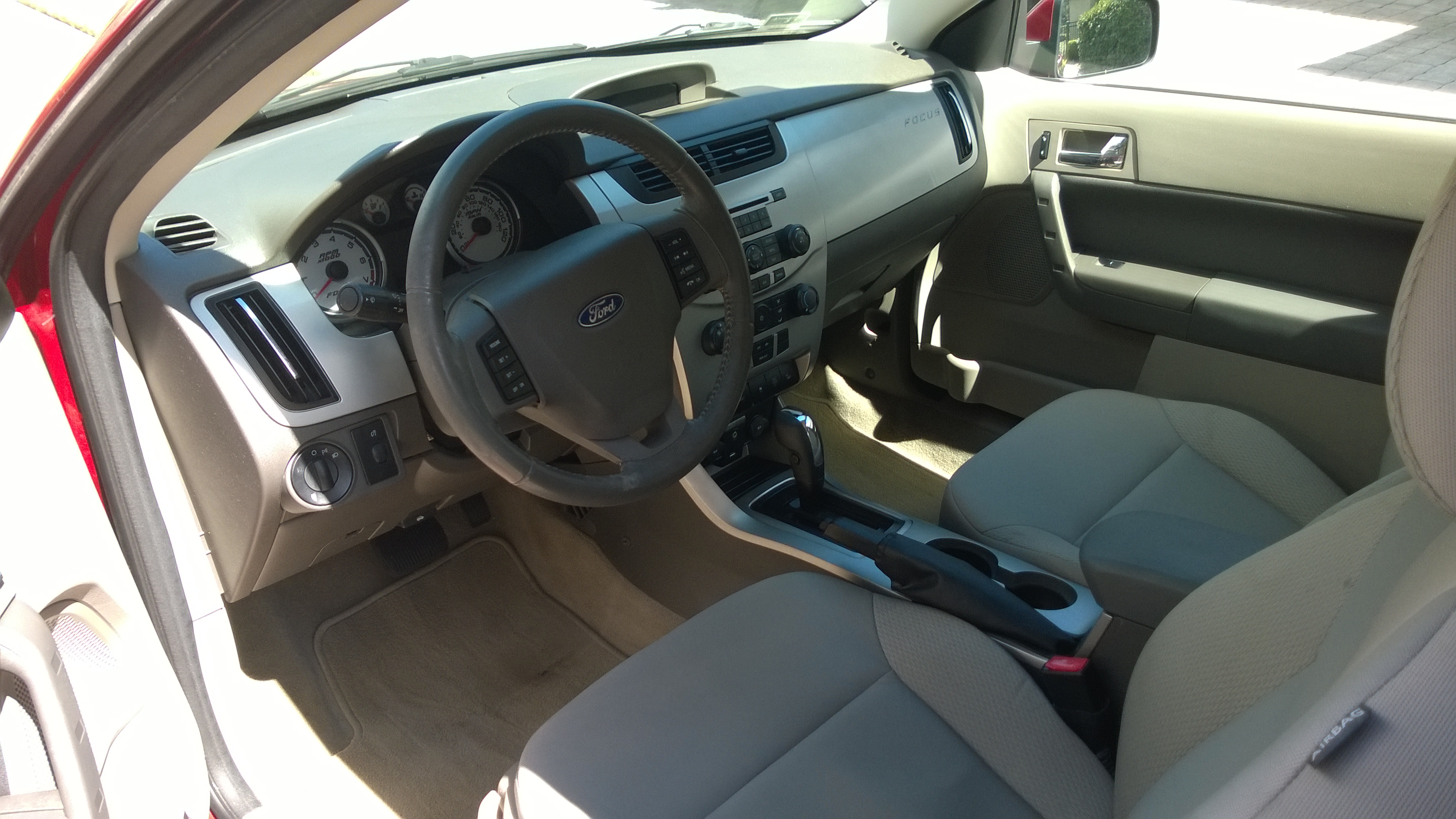 2009 Ford Focus SES coupe (North America) dashboard, entry view